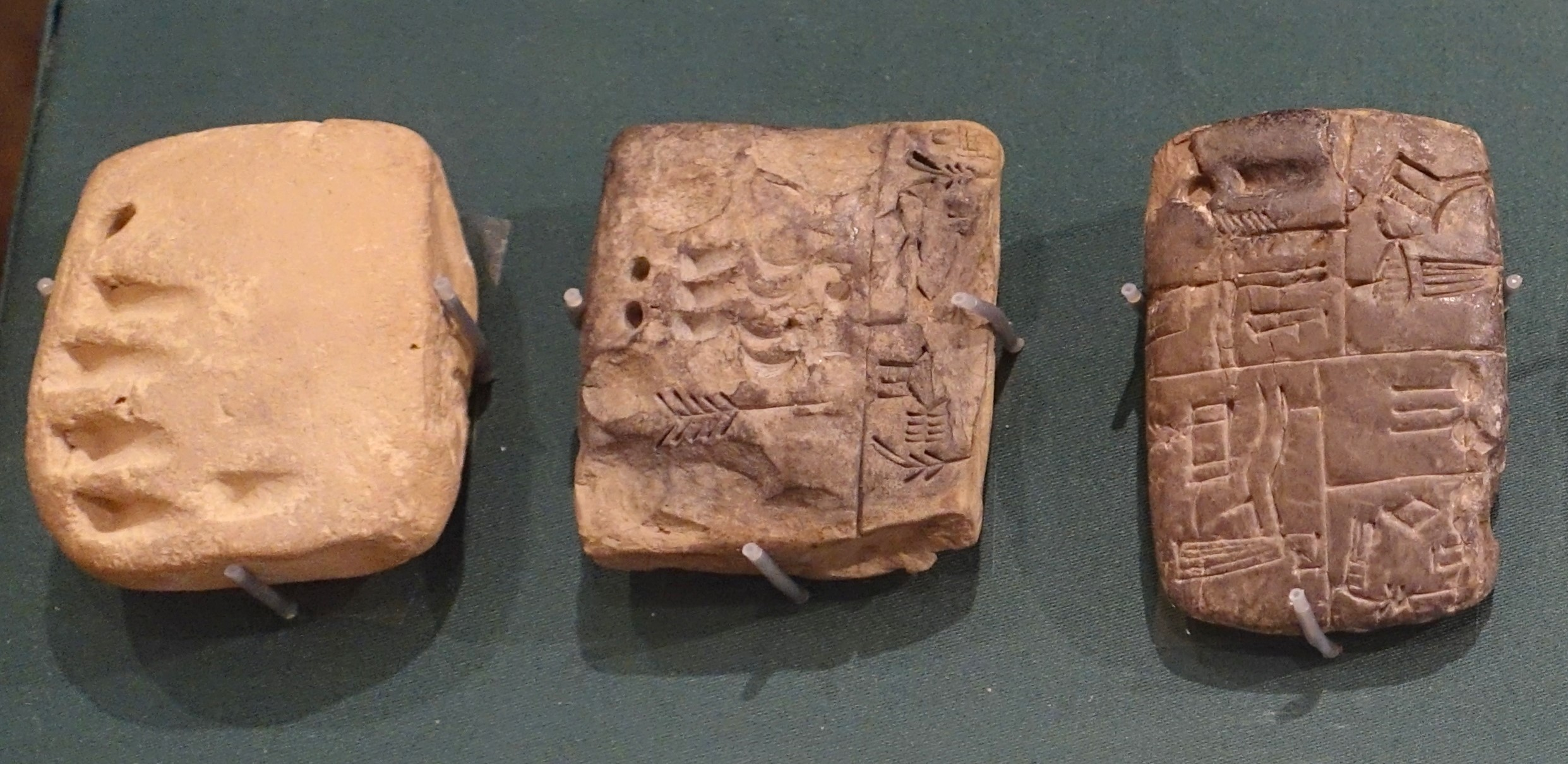 Numerical tablet (left), numerical-ideographic tablet (center) and proto-cuneiform tablet (right), from the collections of the Oriental Institute of Chicago. Late Uruk period (maybe Jemdet-Nasr for the last one, no informations).